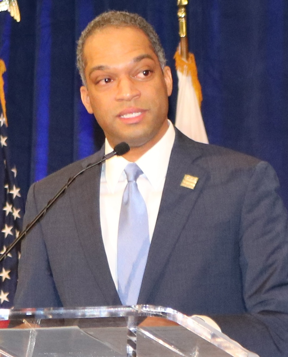 Candid of Brandon Todd taken at the 2017 Inauguration.